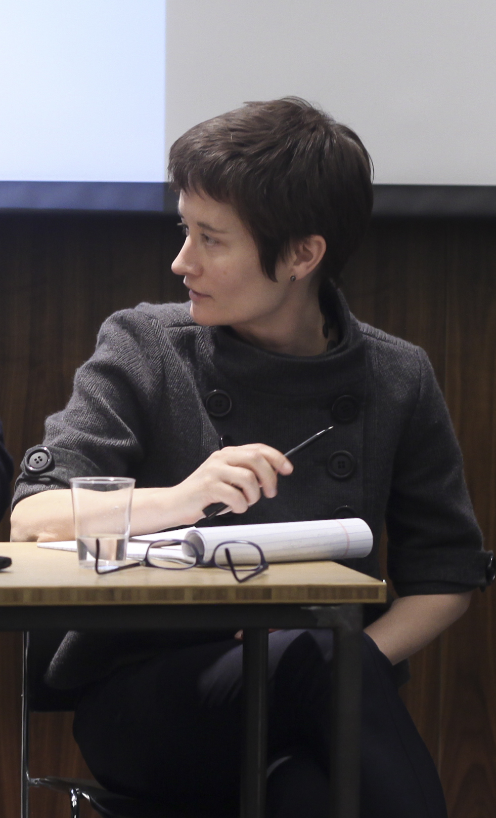 Advanced Architectural Research (AAR) Conference